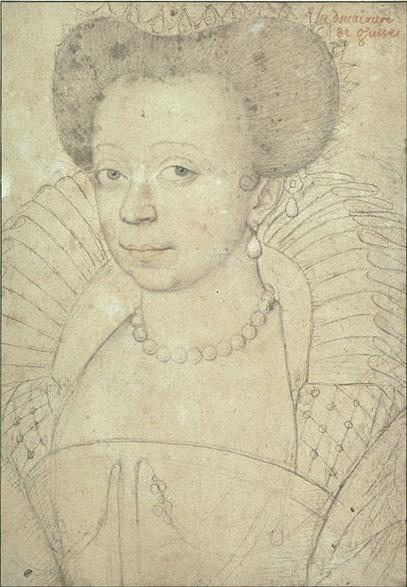 Portrait of Catherine of Cleves, Duchess of Guise and Countess of Eu, Paris, musée du Louvre, Fonds des dessins et miniatures